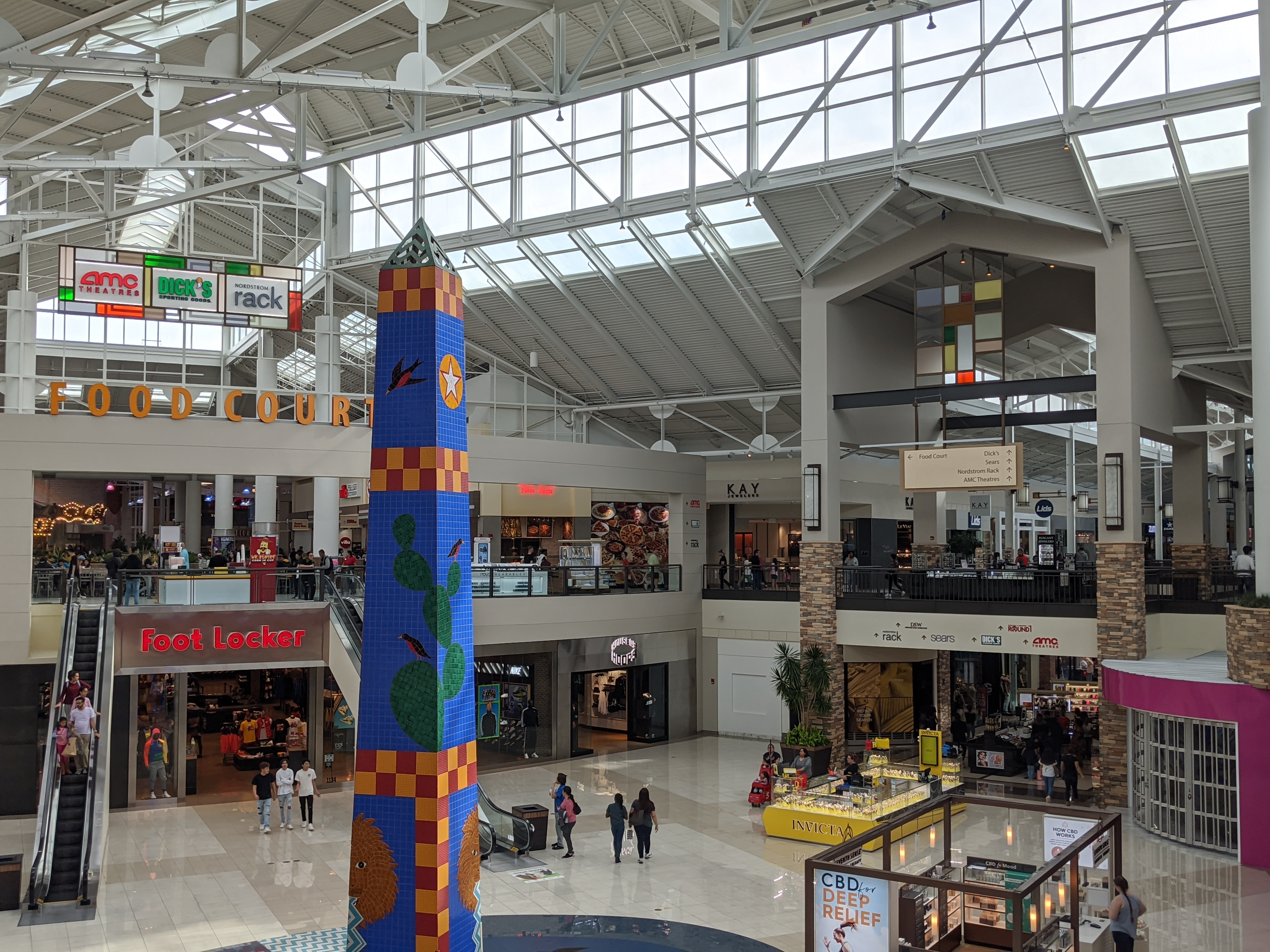 Atrium Court at the mall